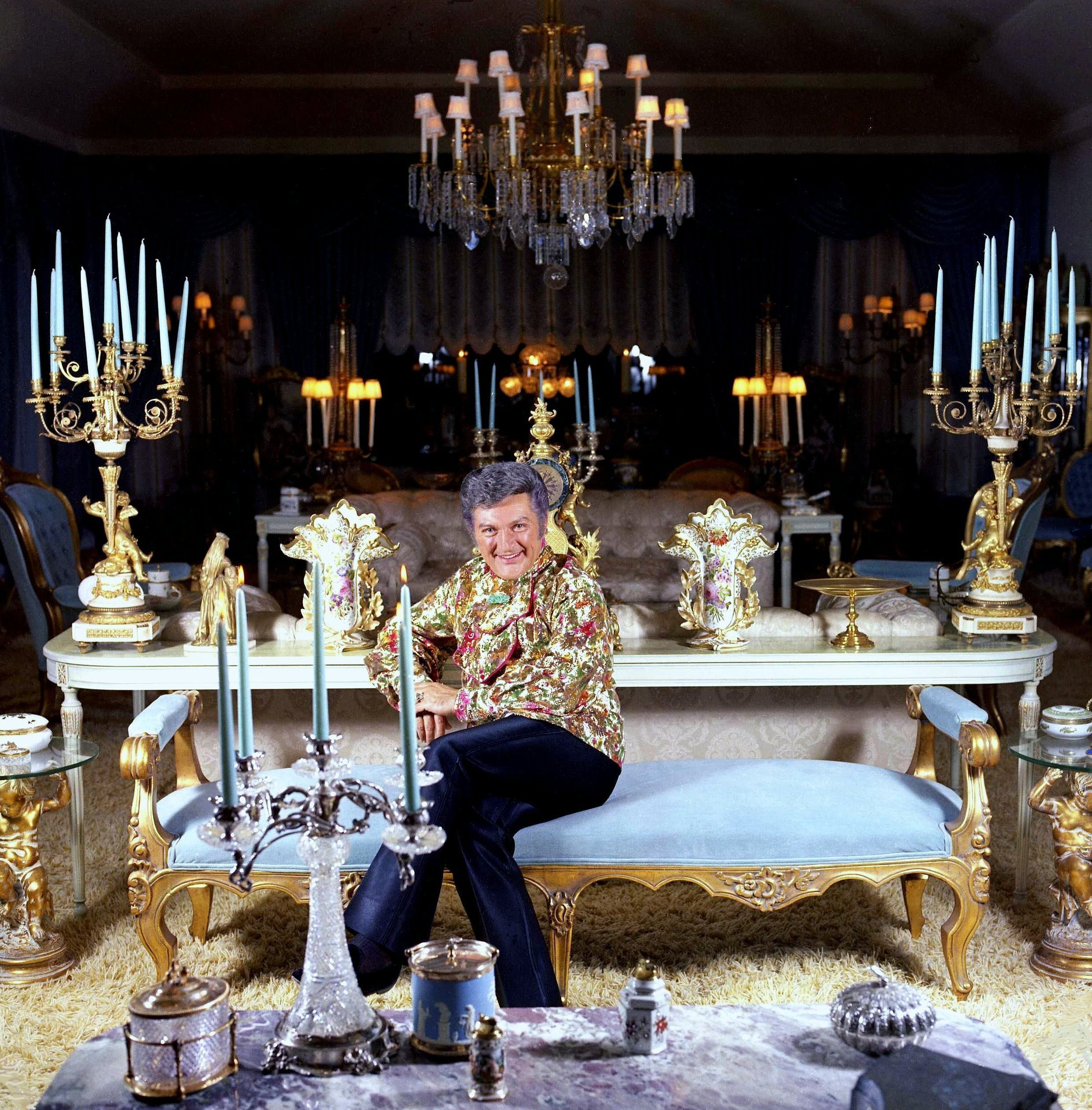 portrait of Liberace